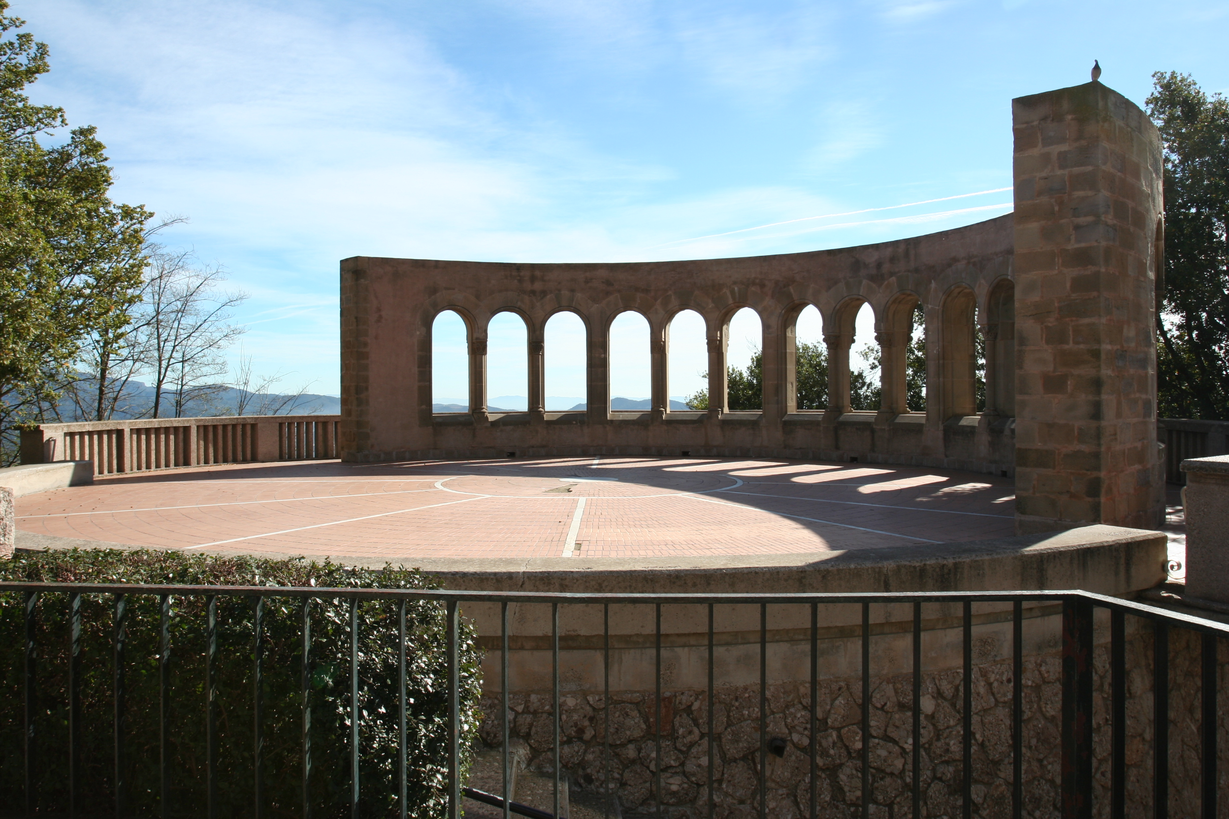 Mausoleum of the Tercio de Nuestra Señora de Montserrat soldiers in the Montserrat complex